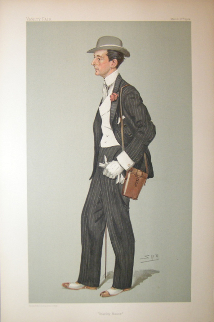 The hon. George Lambton by Spy (Leslie Ward). Caption reads: "Stanley House"